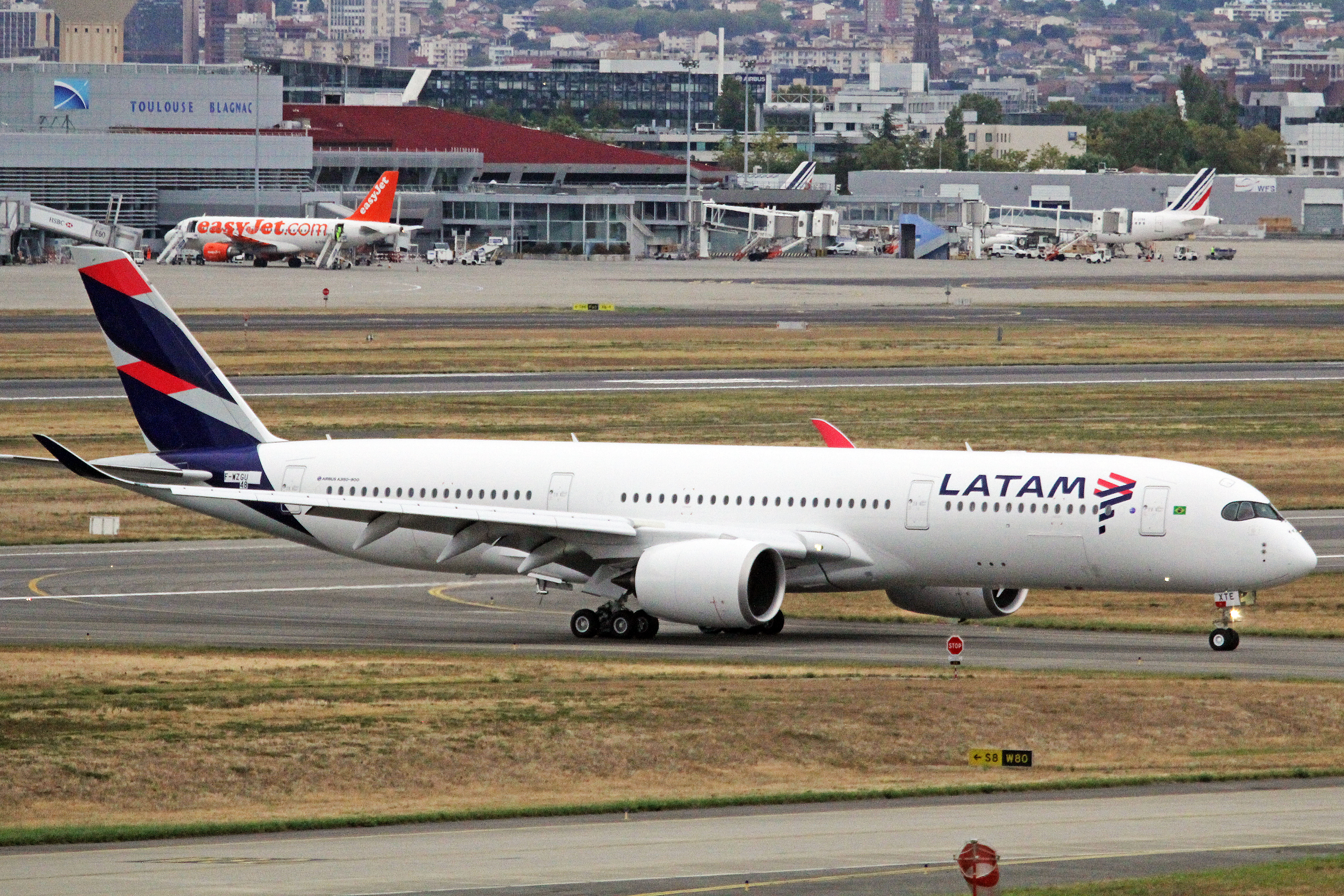 F-WZGU (PR-XTE 048) Airbus A350-941 Airbus Industrie (LATAM Airlines Brazil) TLS 16SEP16